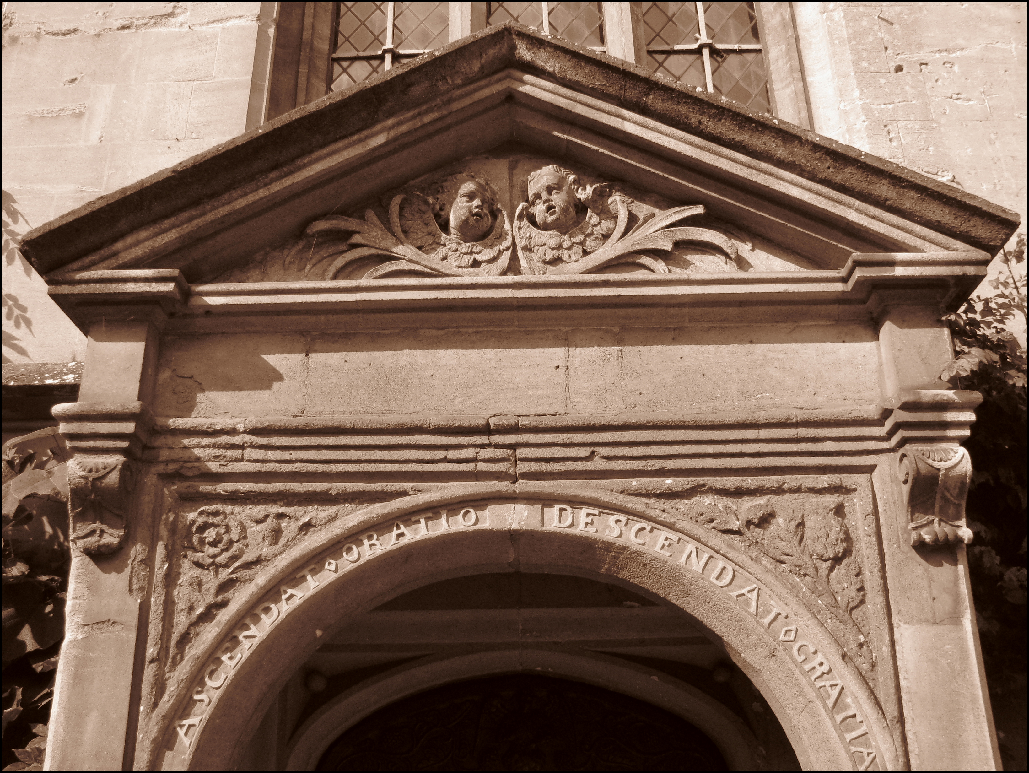 Pediment over the chapel doorway of Jesus College, Oxford, containing a relief of two putti (NOT cherubs)